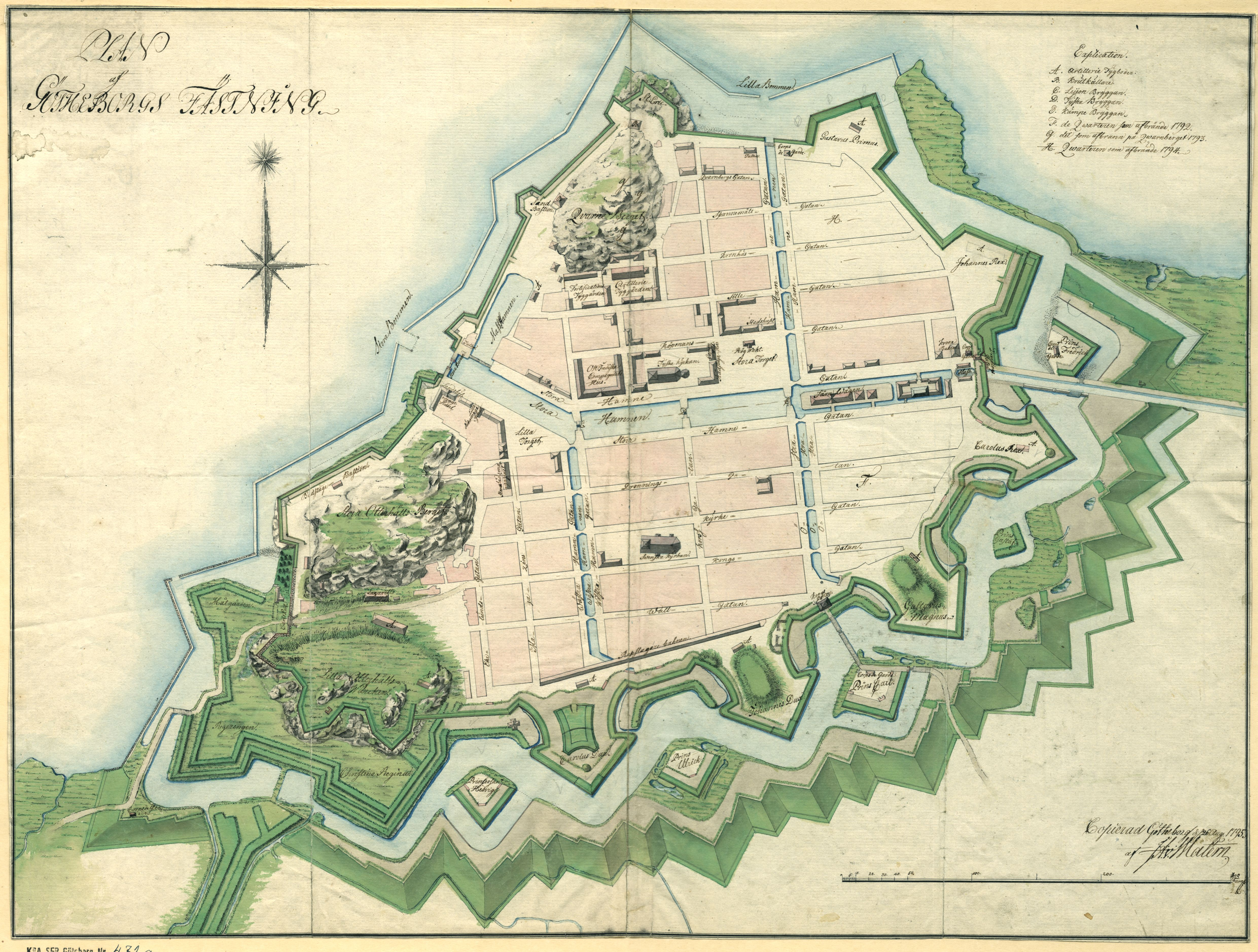 Gothenburg city fortress, Sweden, 1795.